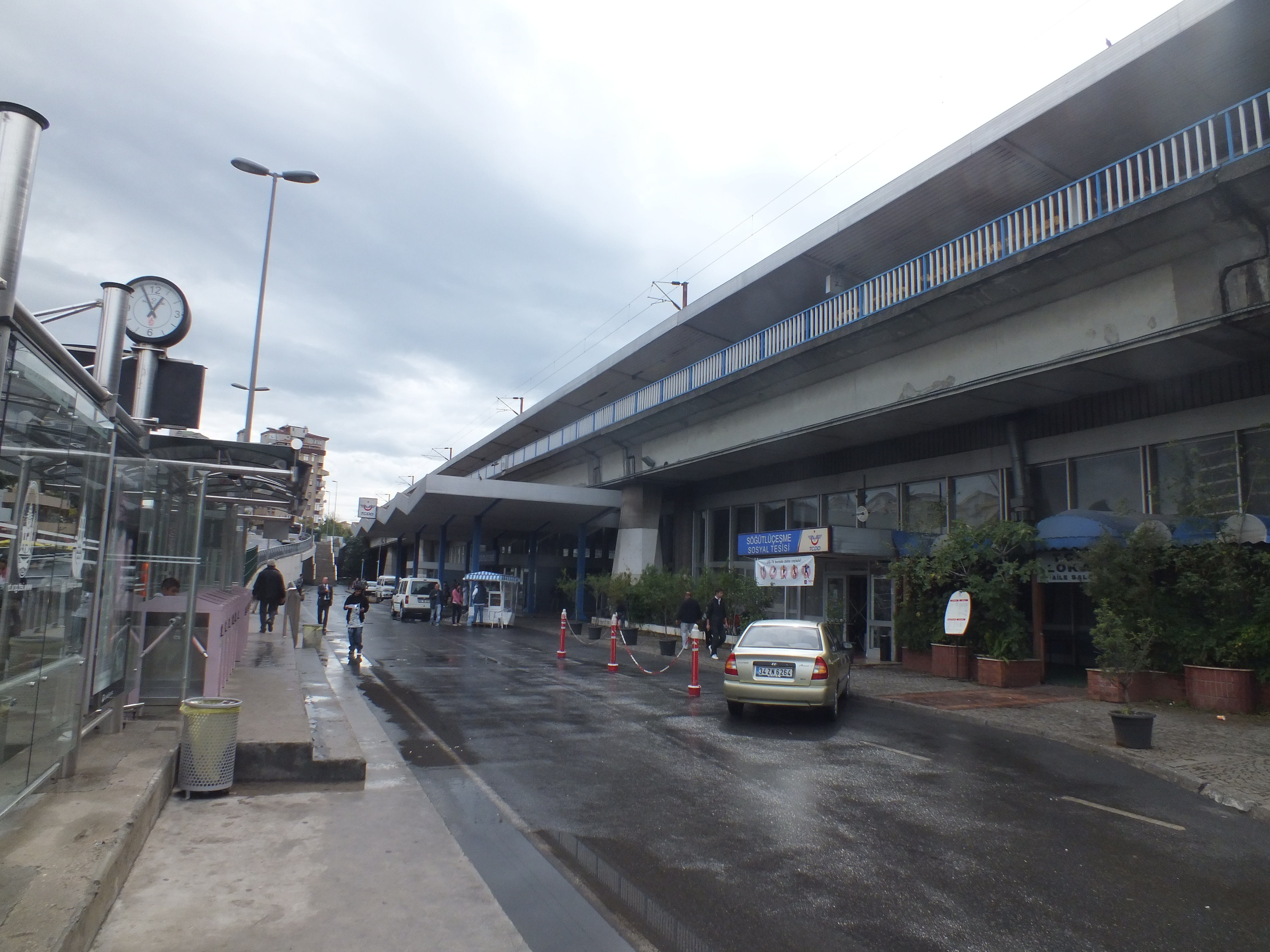 Sögütlücesme station.